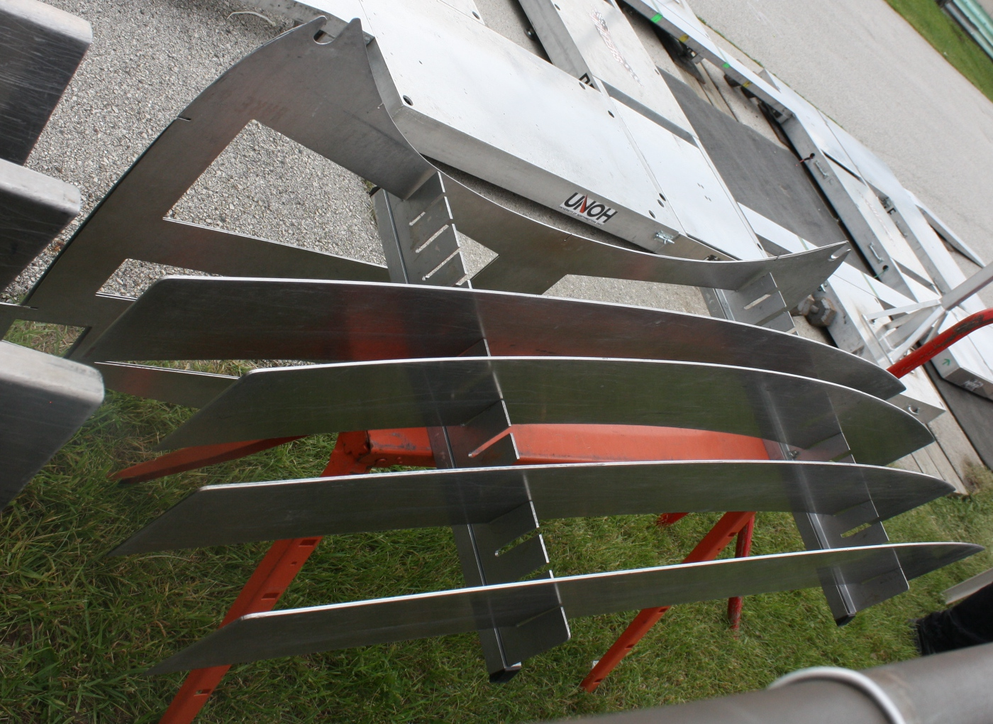 ARCA Series templates at the 2013 SCOTT 160 at Road America.